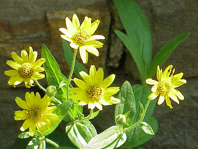 Species: Arnica chamissonis Family: Asteraceae Image No. 1